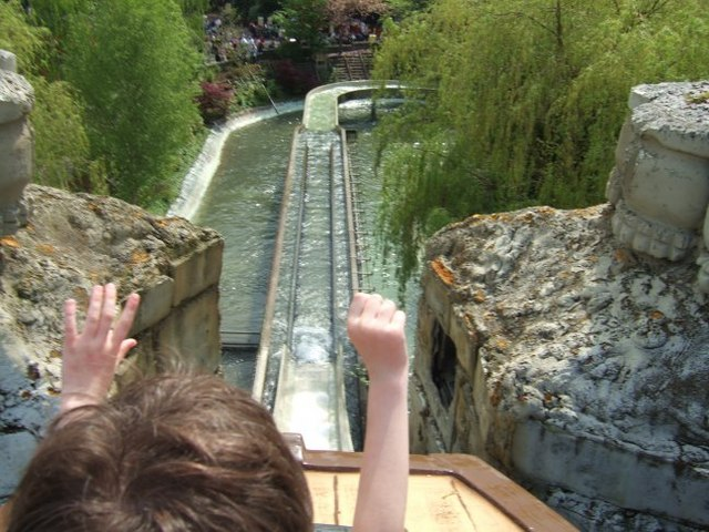 Dragon Falls. Ride at Chessington World of Adventures. View over the top of the big drop before you hit the water (See 167103).